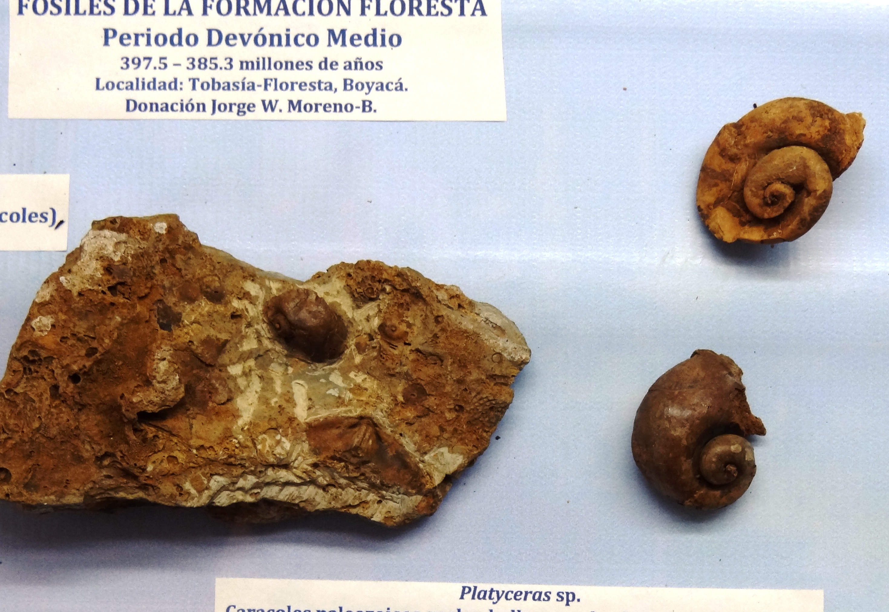 Platyceras sp. from the Floresta Formation of Boyacá, Colombia. Paleontological Museum of Villa de Leyva.